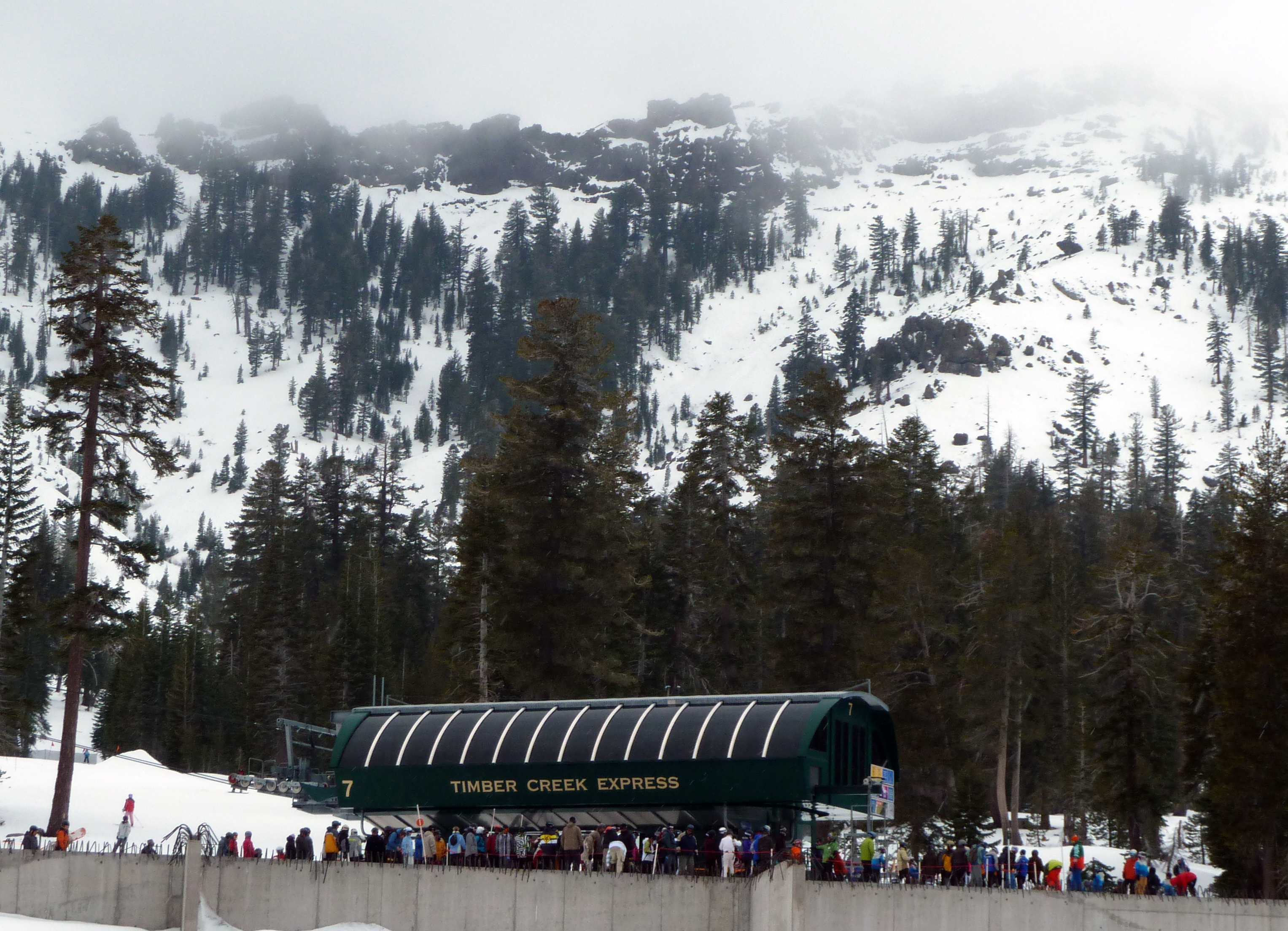 Timber Creek Express Lift At Kirkwood